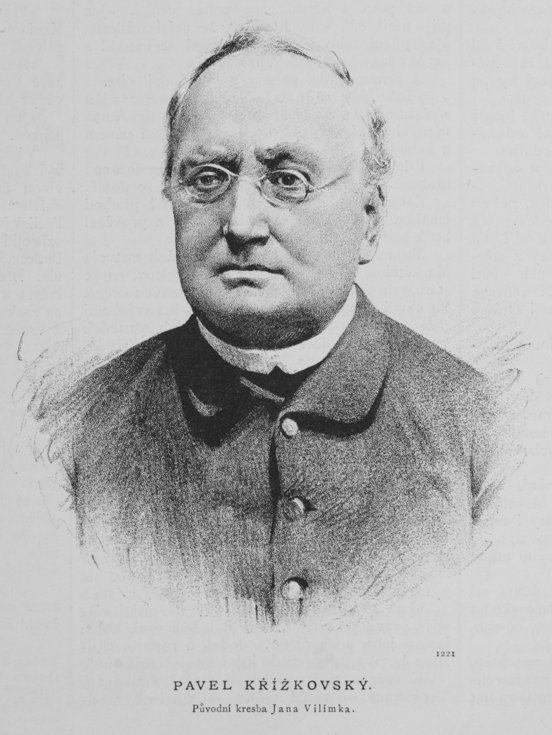 Portrait of Pavel Křížkovský (1820-1885), Czech composer.